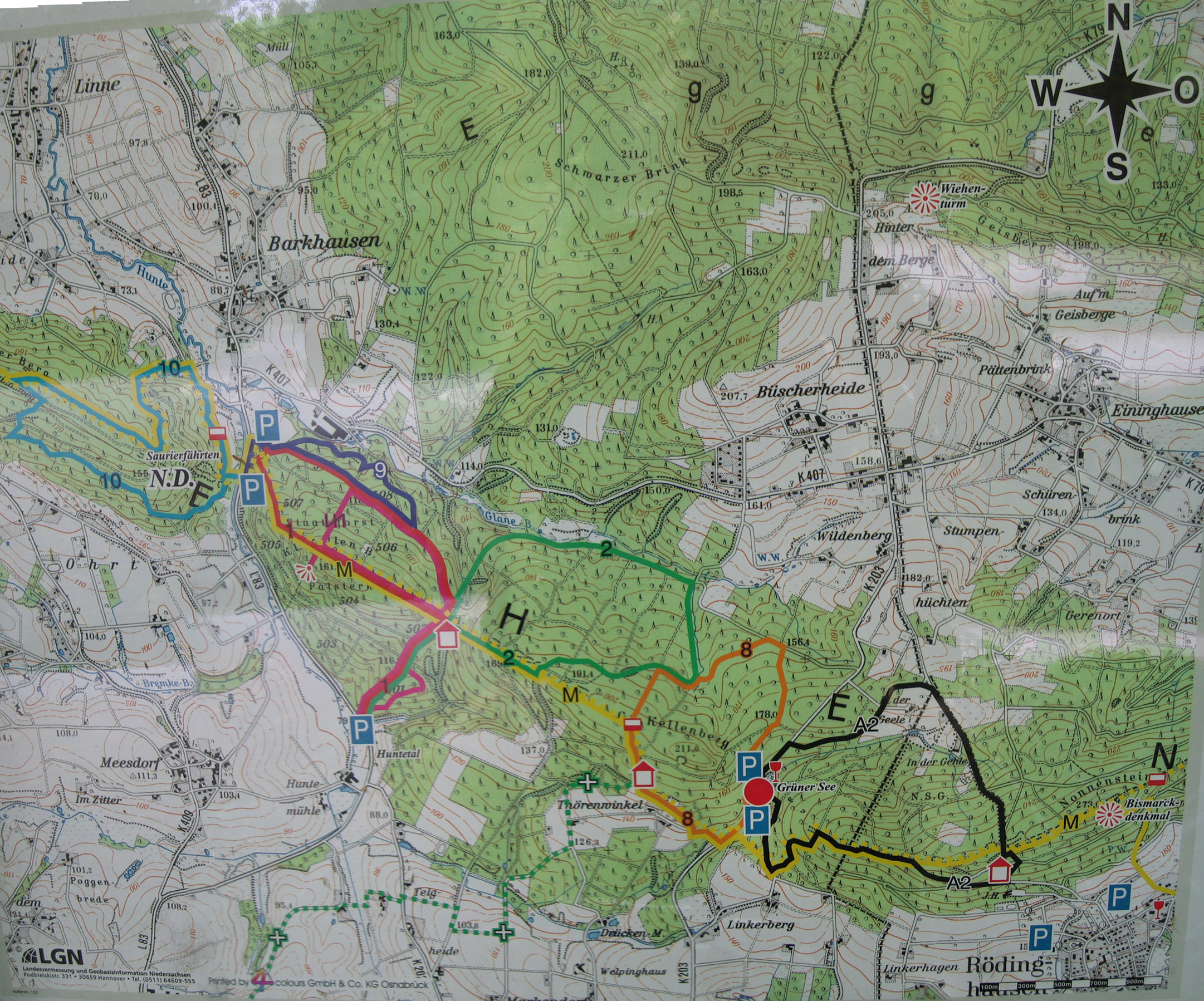 Hiking map near lake Grüner See near Melle, District of Minden-Lübbecke, District of Osnabrück, Lower Saxony.